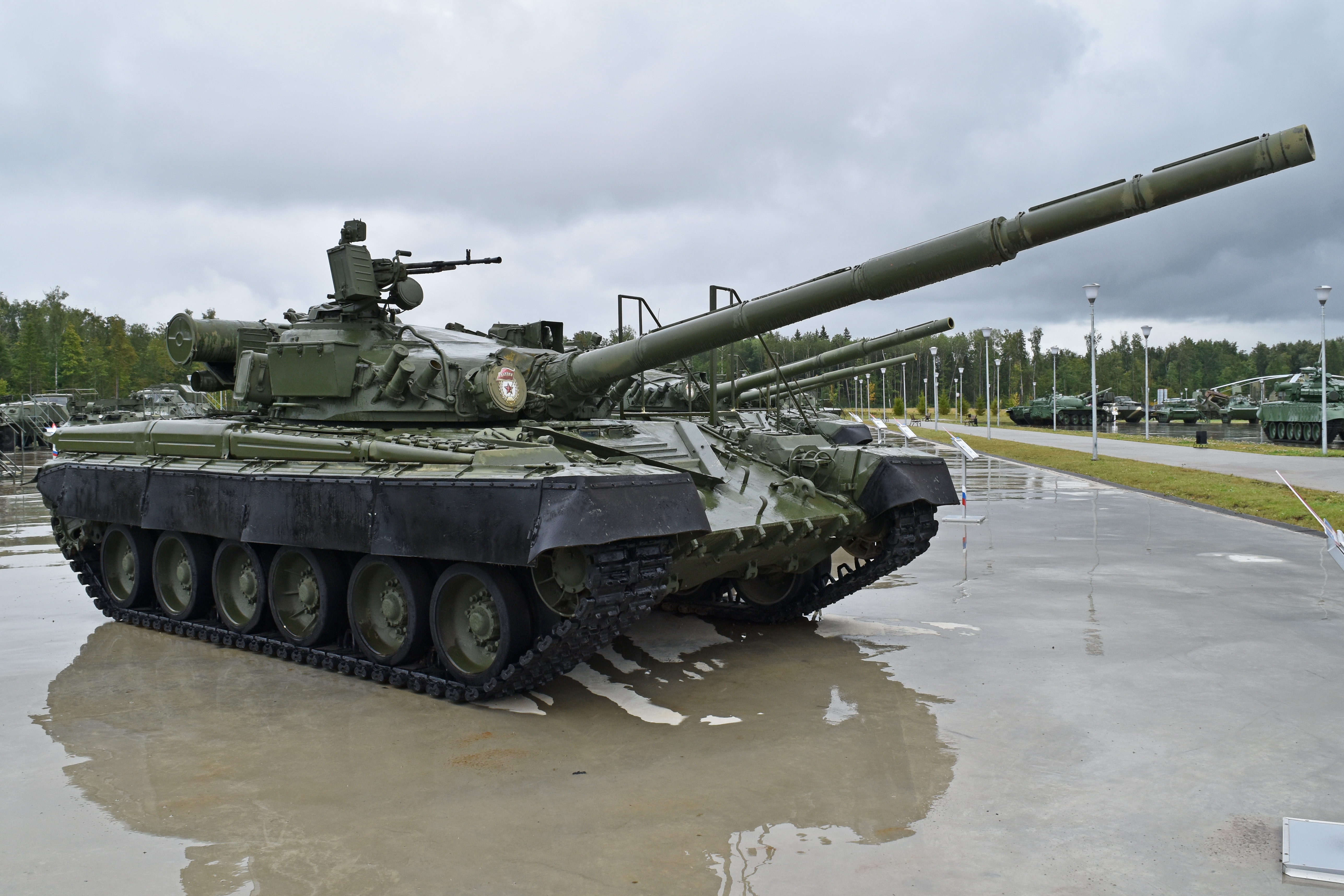 Soviet 3rd Generation Main Battle Tank Project No:- Obeikt 219R Built:- 1976 to 1992 Total Production:- 5,404 Main Armament:- 125mm 2A46-2 Smoothbore gun The T-80 was the first Main Battle Tank to feature a multifuel turbine engine as its main propulsion engine. The T-80B had a new turret, laser-rangefinder, fire-control and the 9M112-1 ‘Kobra’ ATGM system. On display in Area 1 of the Patriot Museum Complex. Park Patriot, Kubinka, Moscow Oblast, Russia. 25th August 2017